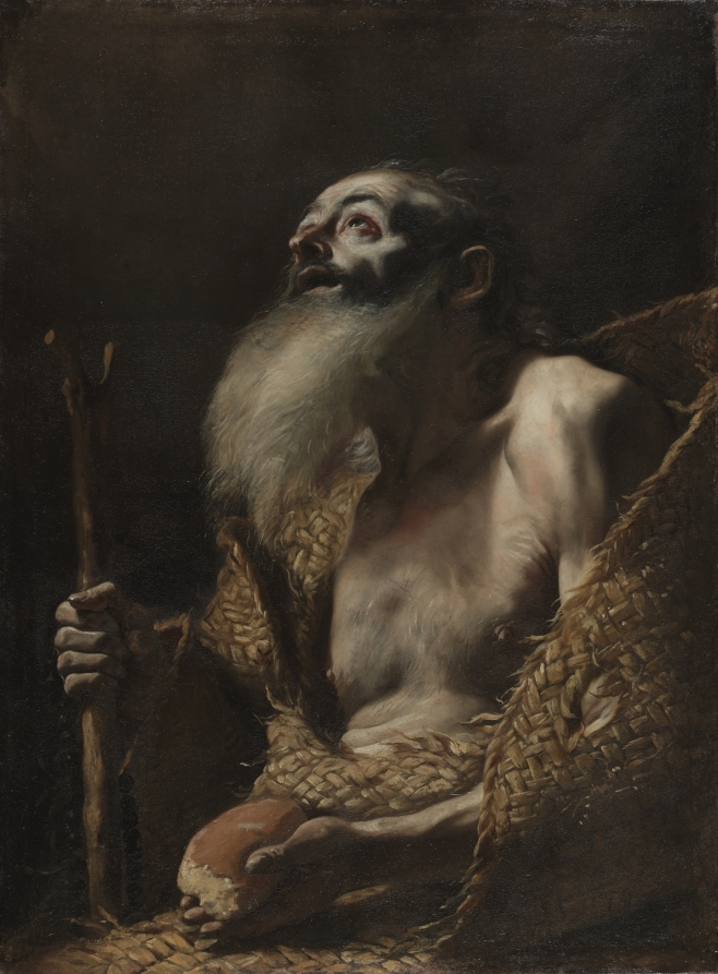 St. Paul the Hermit